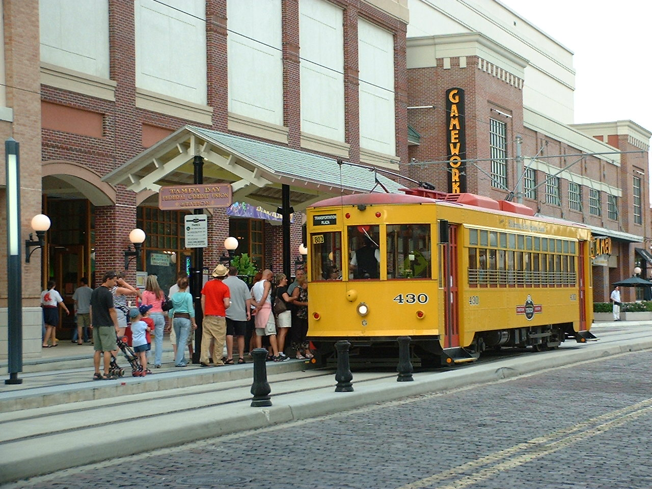 Tampa Electric Company streetcar photo